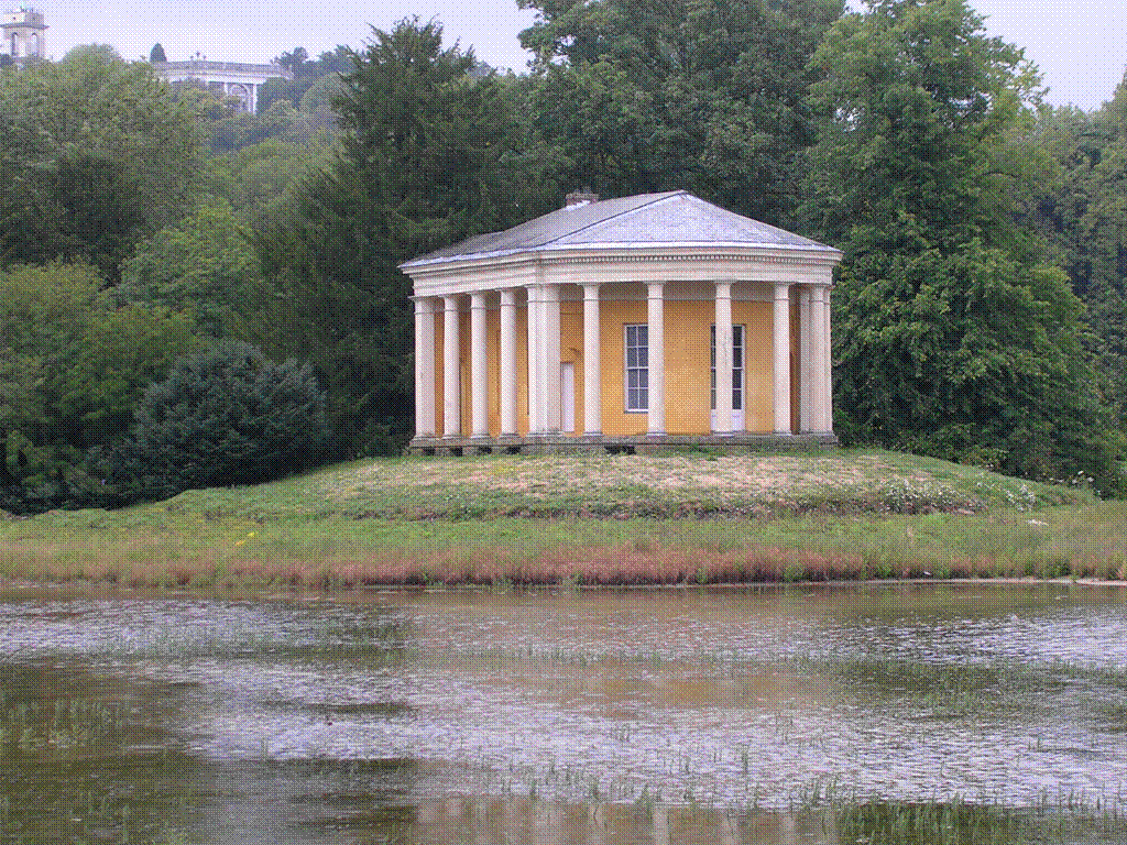 West Wycombe Park: Photographed by uploader August 2006